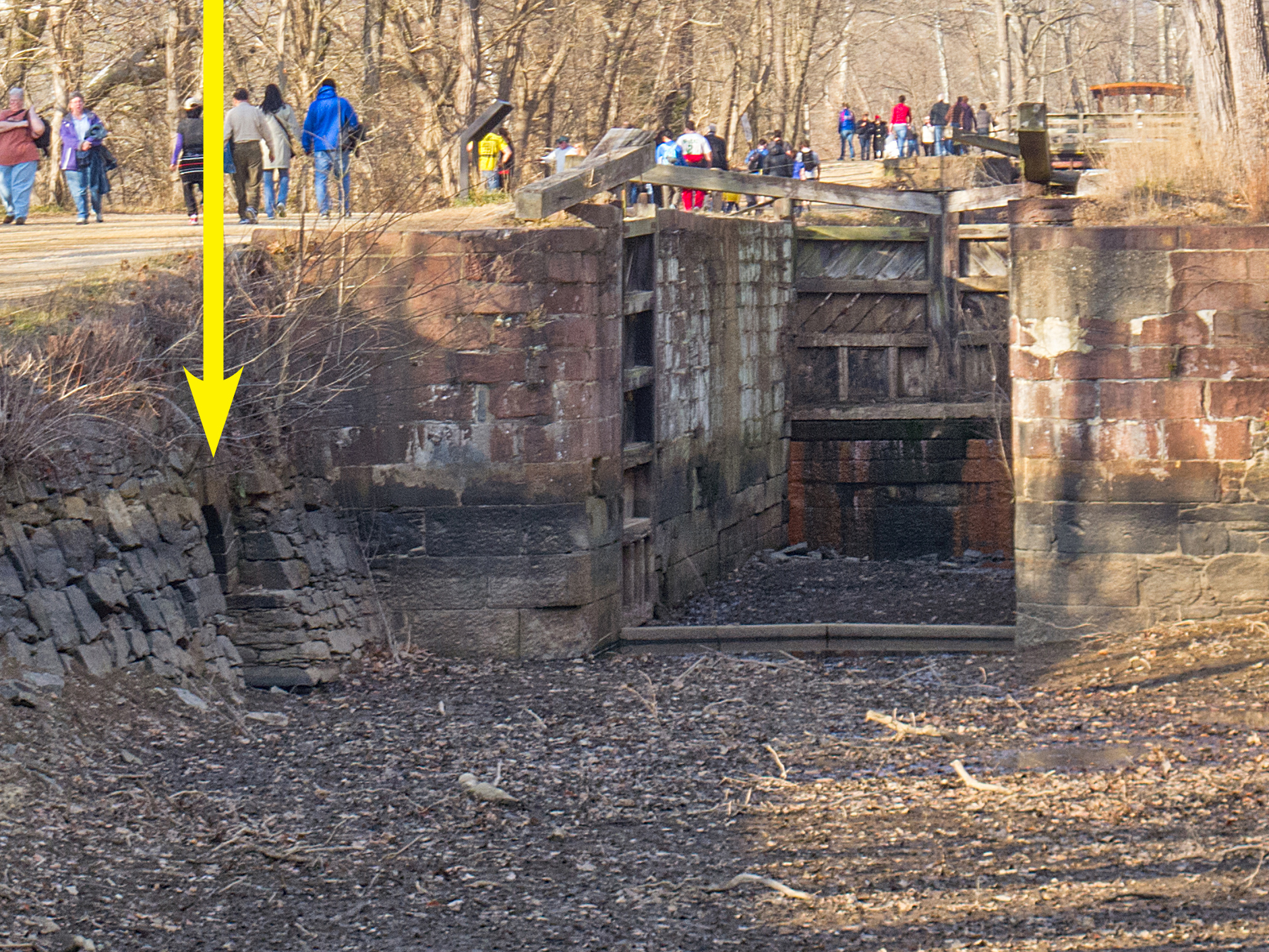 Great Falls Feeder culvert at 14.08 miles, yellow arrow shows where culvert is, and Lock 18 in Great Falls Maryland, along Chesapeake and Ohio Canal. The Great Falls feeder was abandoned (now bricked in) when Dam No. 2 was made.